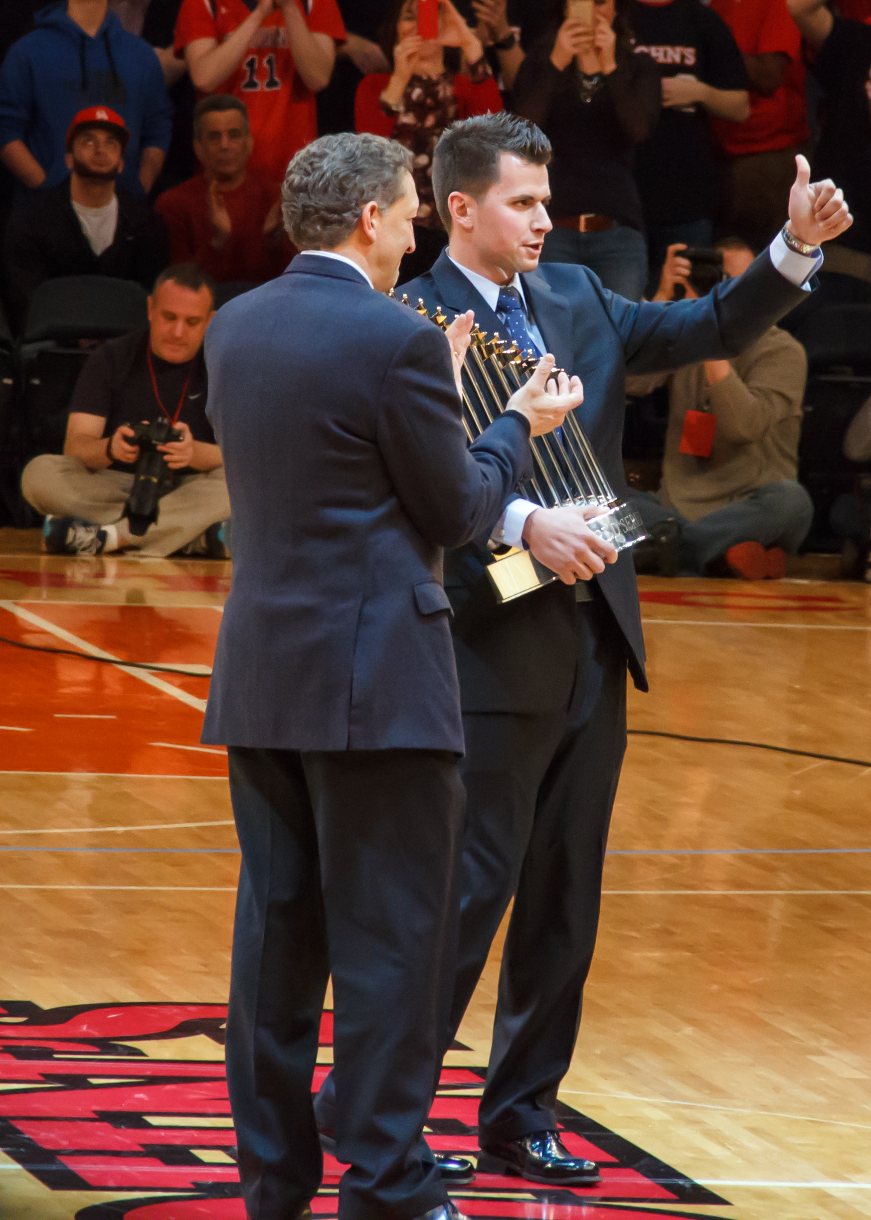 Joe Panik